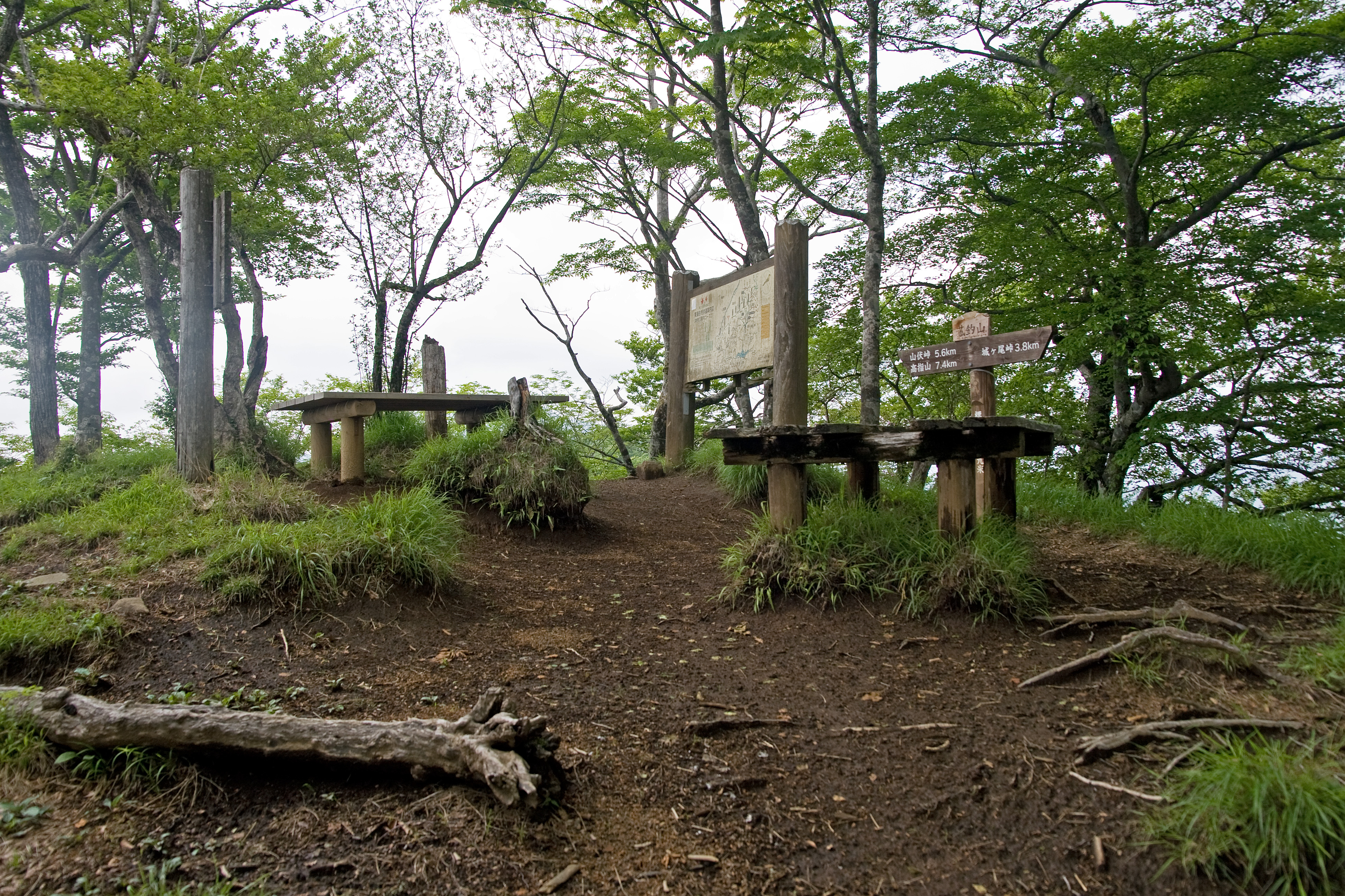 The summit of Mt.Komotsurushi in Mts.Tanzawa, Kanagawa and Yamanashi Pref, Japan.